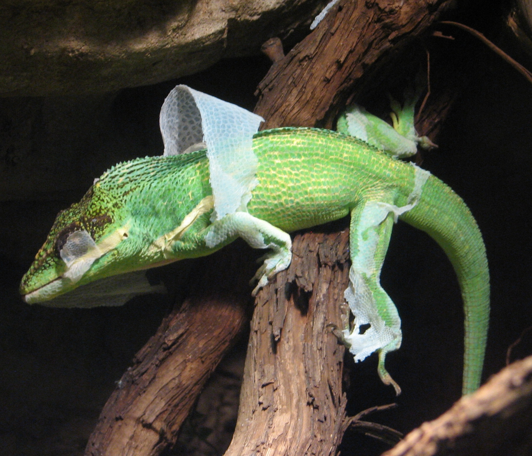 Knight Anole (Anolis equestris equestris) at the Cincinnati Zoo